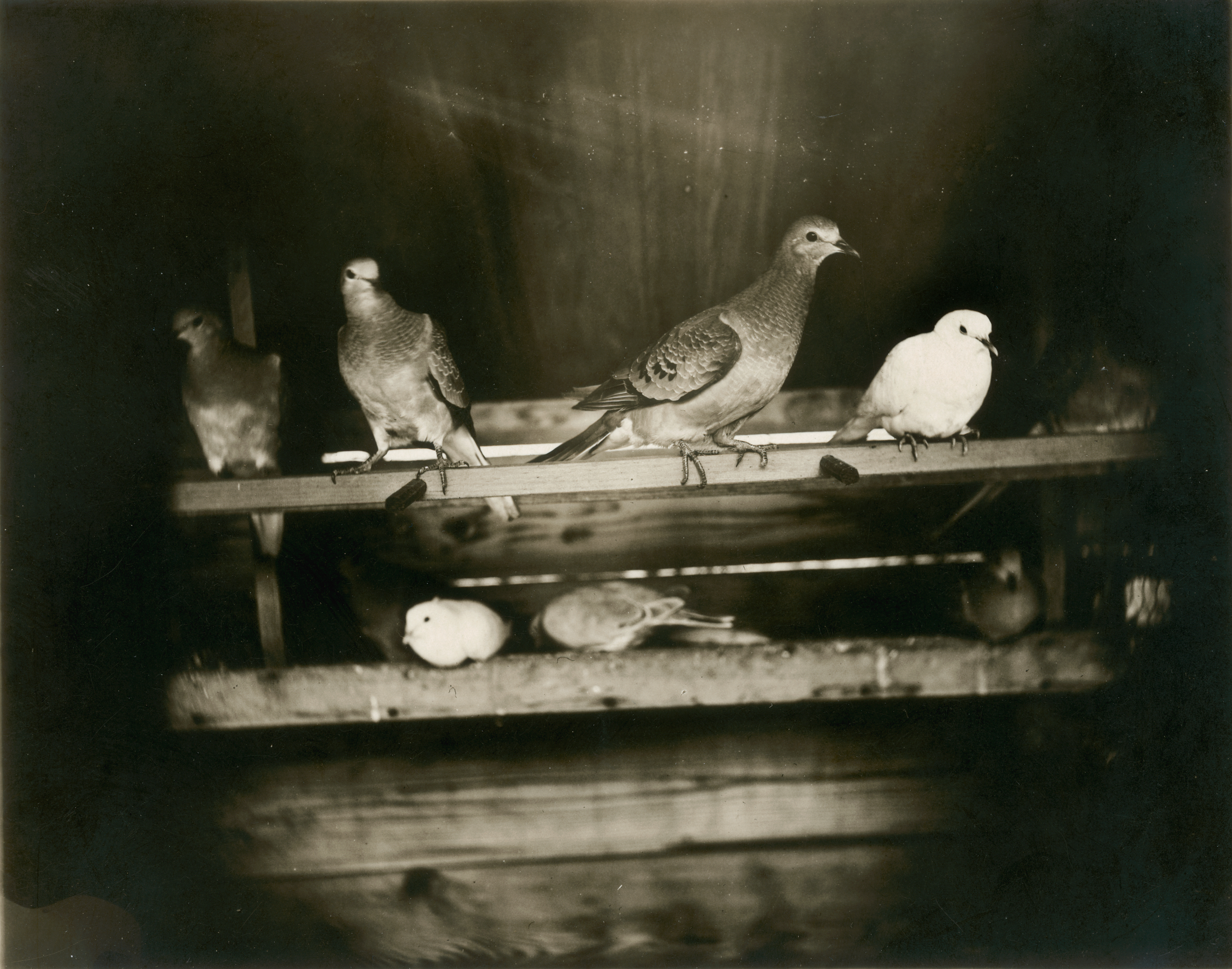 Seven passenger pigeons (possibly other types of pigeon as well?), a species of pigeon now extinct. Part of a group of pigeons that lived in captivity in the aviary of Professor C.O. Whitman, professor of Zoology at the University of Chicago.